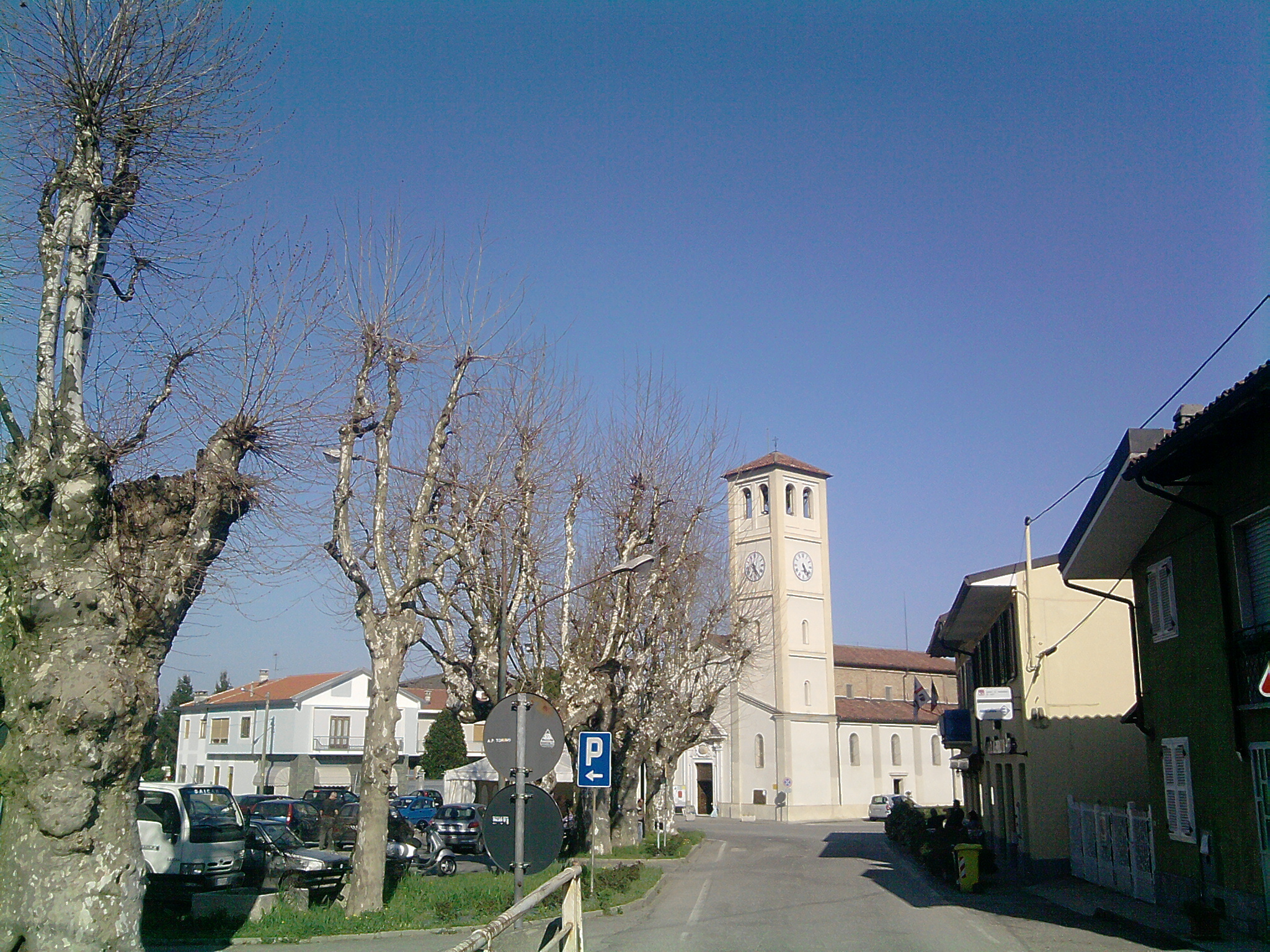 Parish Church of Lauriano; originally (sixteenth century) was dedicated to "San Sebastian", then (eighteenth century) was also devoted to "Assumption of Maria Vergine." On 10 August 1625 was sacked and burned by Polish cavalry (from the siege of Verrua). In the square opposite the church there are multi plane trees.